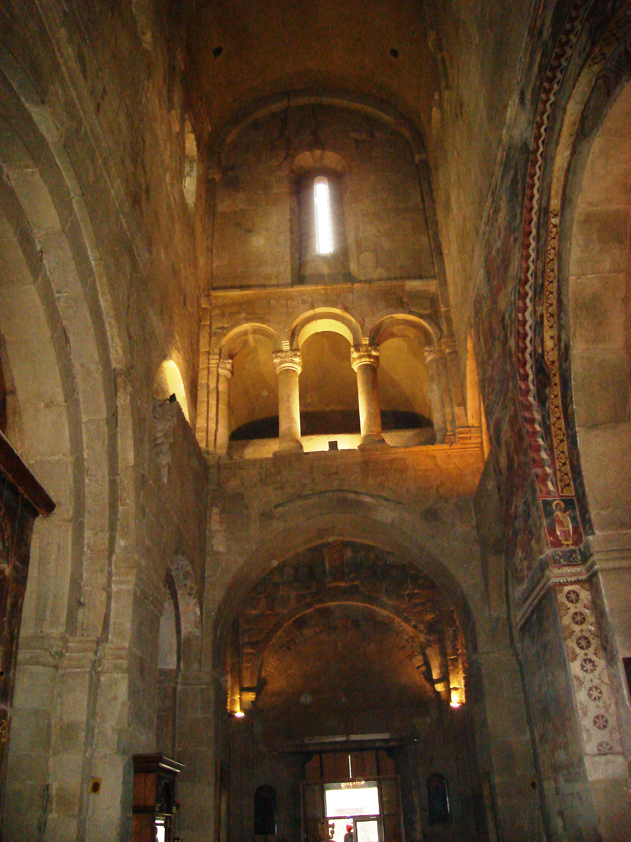 Svetitskhoveli Cathedral. Interior.